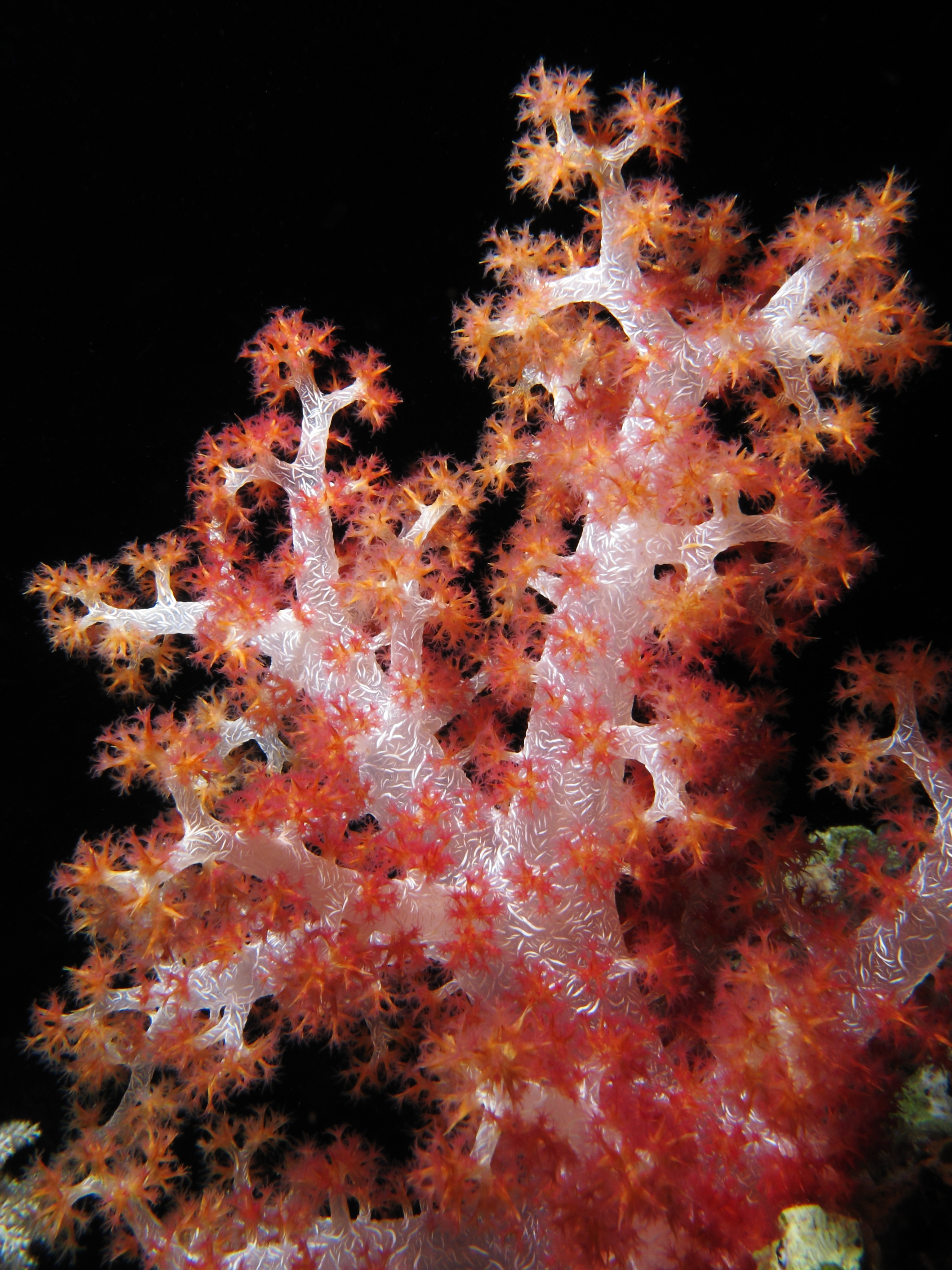 Soft coral Dendronephthya hemprichi at Gilli Lawa Laut (near Komodo, Indonesia)